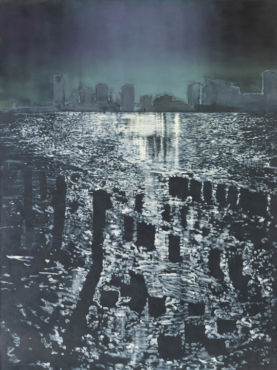 Painting by Ena Swansea,"14th St pile field" 2010, non-commercial use only Other information Painting made by artist from her own original source material with no use of any other persons copyright material